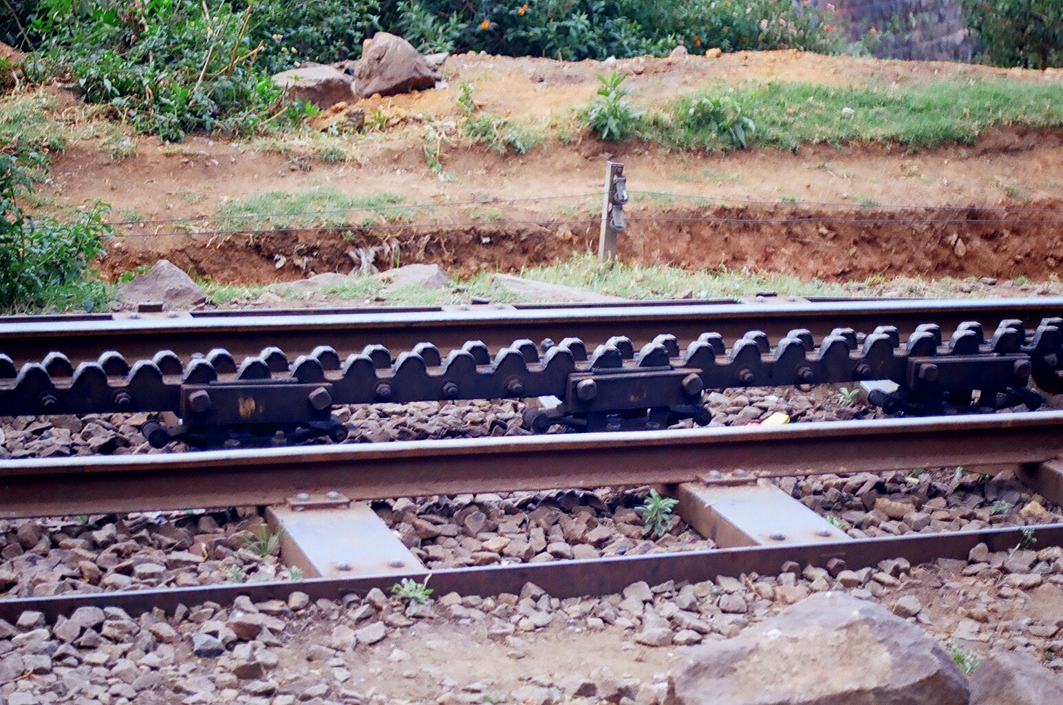 Track with Abt double rack on Nilgiris Mountain Railway